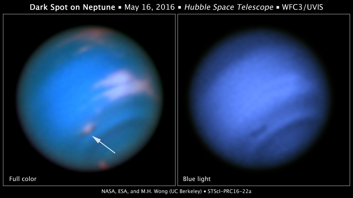 This new image taken with the NASA/ESA Hubble Space Telescope confirms the presence of a dark vortex in the atmosphere of Neptune. The full visible-light image at left shows that the dark feature resides near and below a patch of bright clouds in the planet's southern hemisphere. The dark spot measures roughly 4,800 kilometers across. Other high-altitude clouds can be seen at the planet's equatorial region and polar regions. The image at right shows that Neptune's dark vortices are typically best seen at blue wavelengths. Only Hubble has the high resolution required for identifying such weather features on distant Neptune. Though similar features were seen during the Voyager 2 flyby of Neptune in 1989 and by Hubble in 1994, this vortex is the first one observed on the planet in the 21st century. In September 2015, the Outer Planet Atmospheres Legacy (OPAL) program, a long-term Hubble Space Telescope project that annually captures global maps of the outer planets, revealed a dark spot close to the location of the bright clouds, which had been tracked from the ground. By viewing the vortex a second time, the new Hubble images, taken by Wide Field Camera 3 on May 16, 2016, confirm that OPAL really detected a long-lived feature. With the new data, the team created a higher-quality map of the vortex and its surroundings.